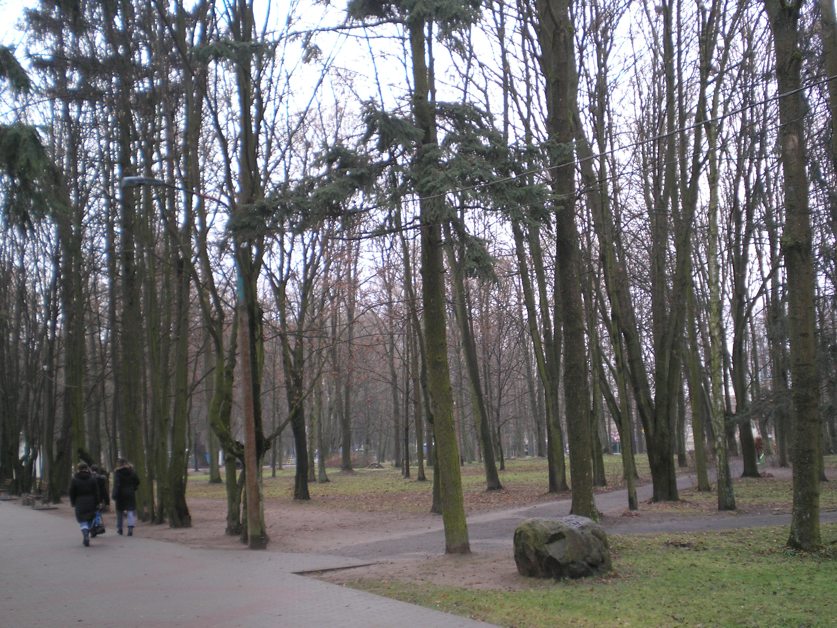 Suvorov Park in Kobrin